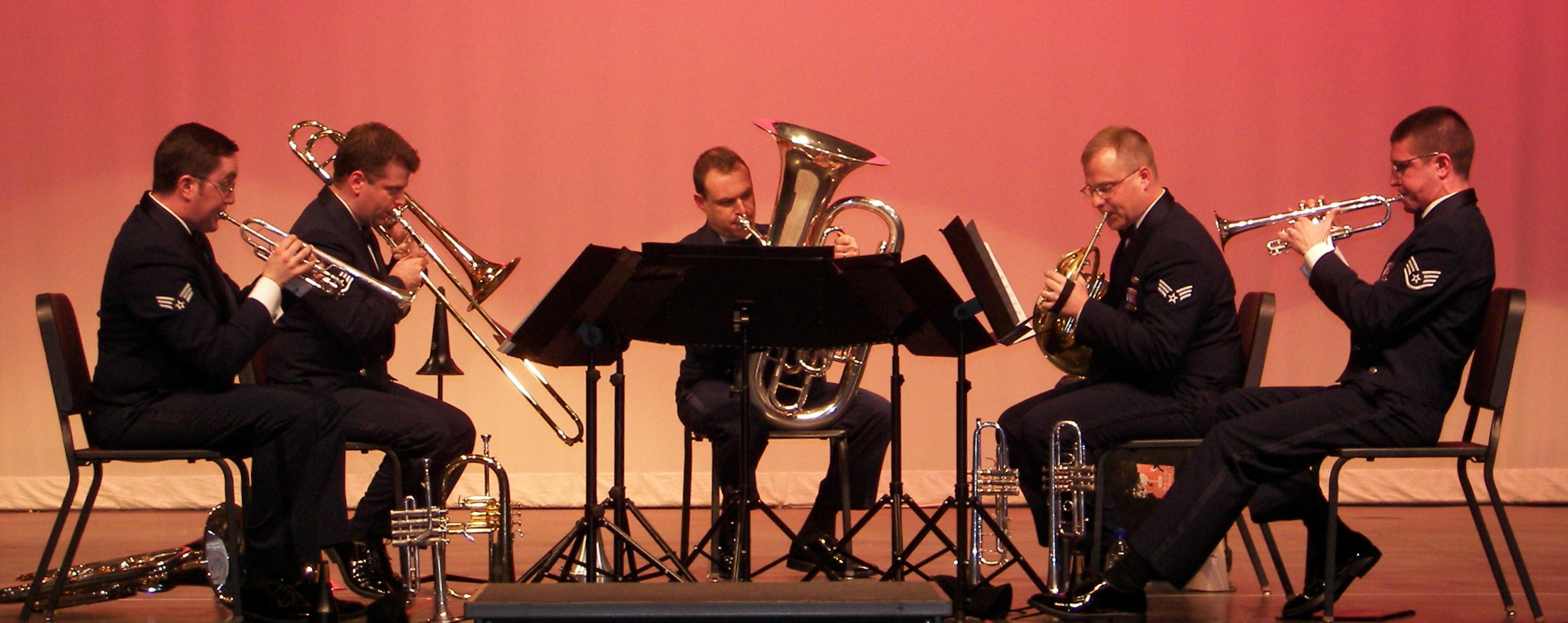 This is the United States Air Force Brass Quintet at Troy University in 2006